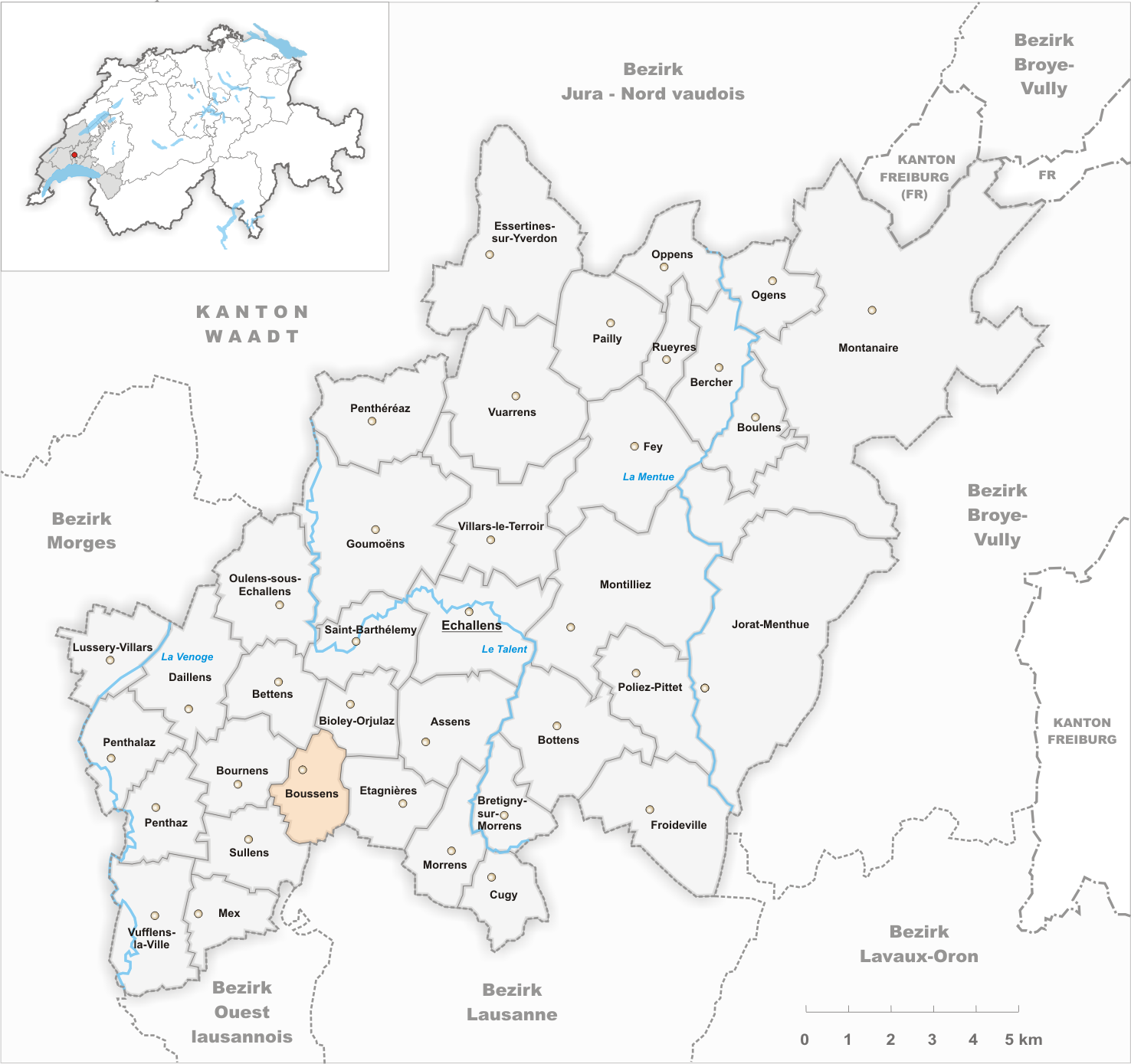 Municipality Boussens